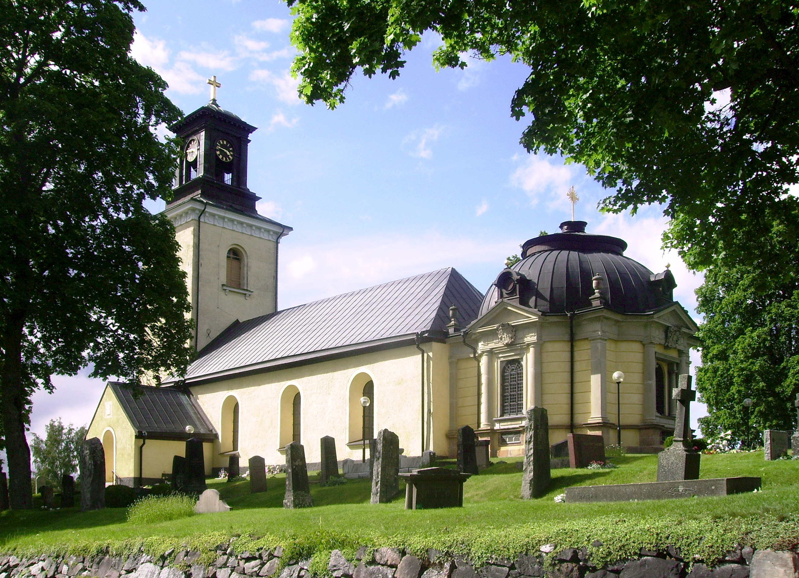 Picture of Turinge kyrka